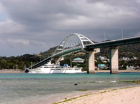 Sesoko Bridge